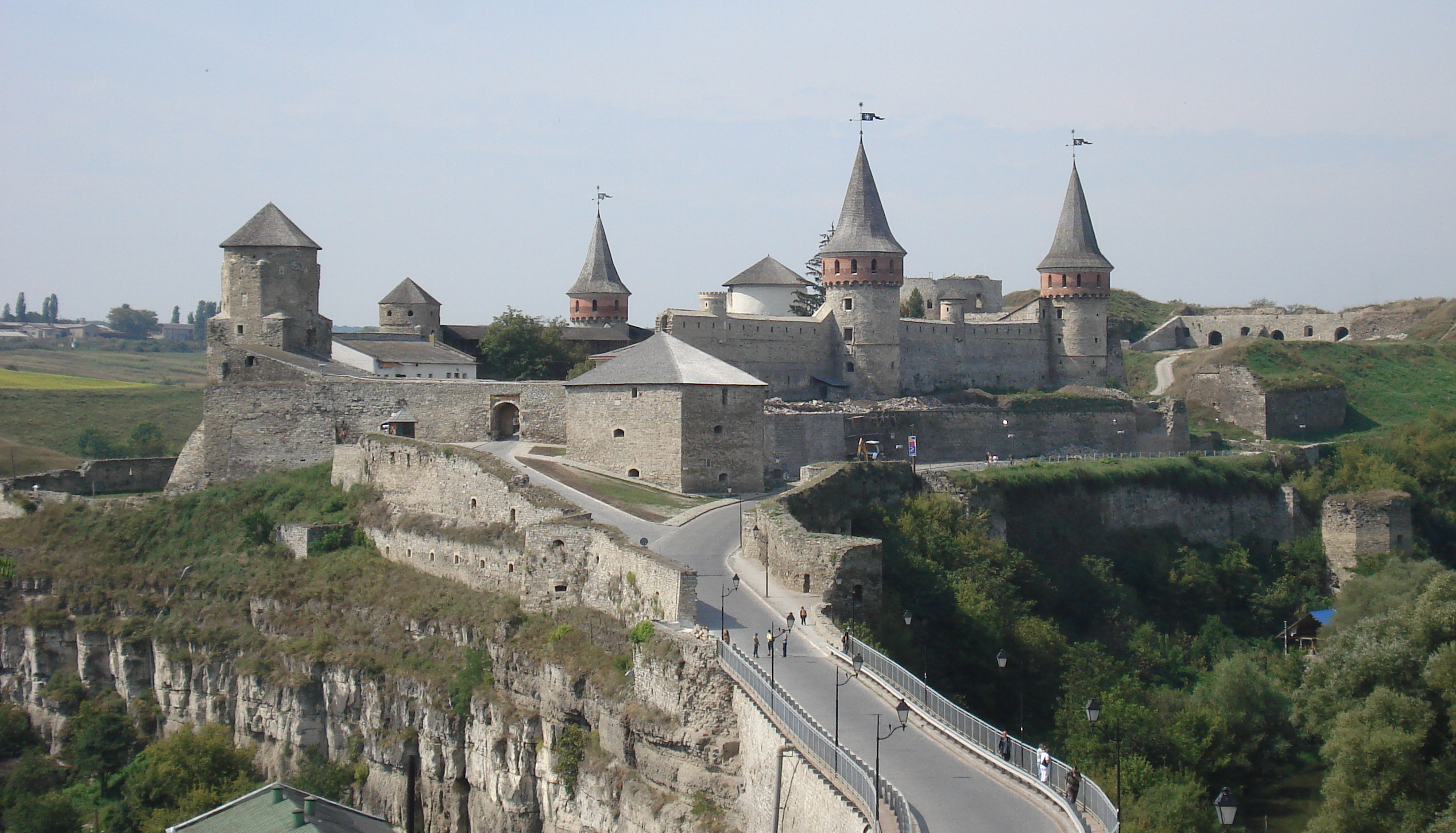 looking west at Kamianets-Podilskyi Castle in Ukraine